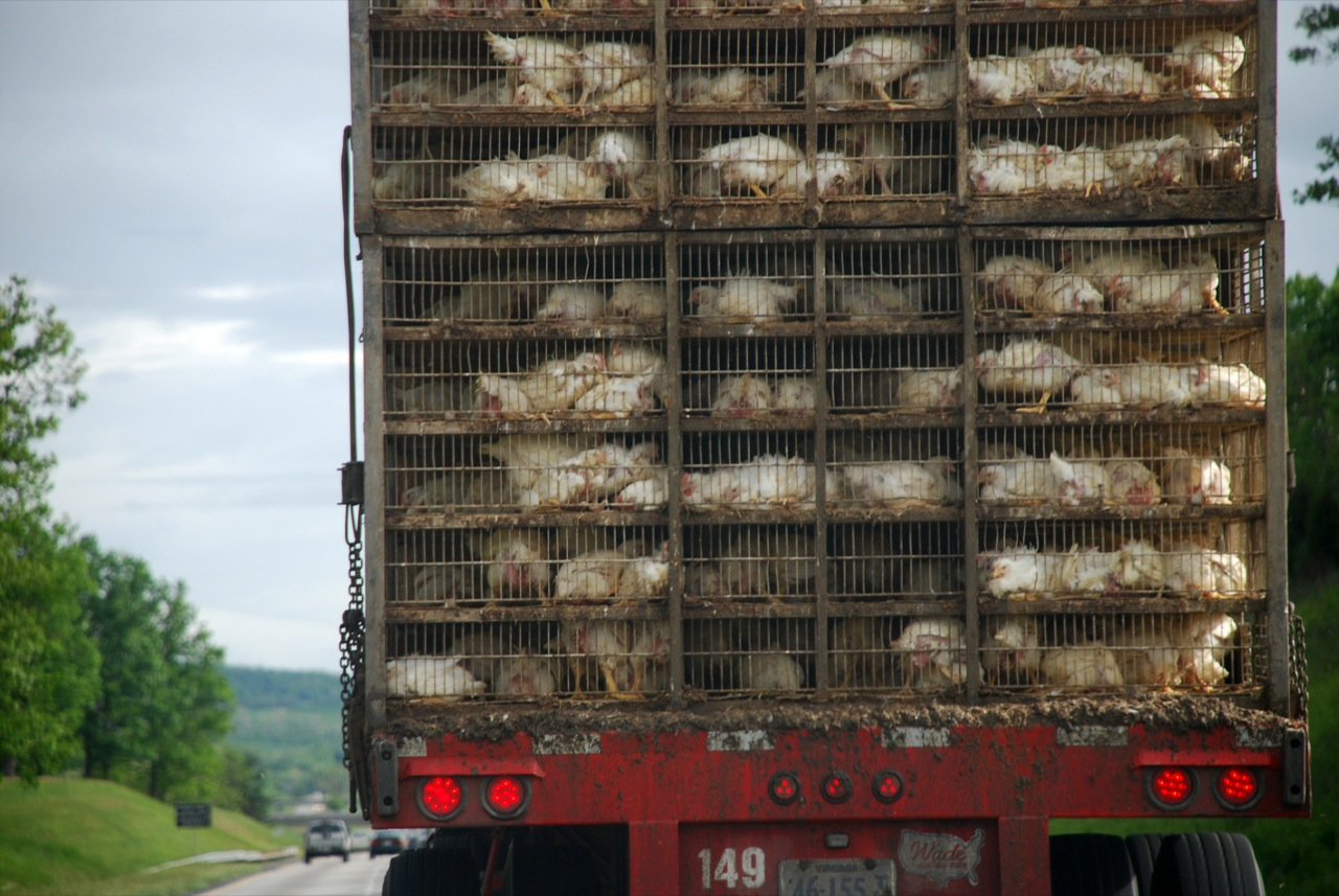 Chickens being transported in trucks, presumably for slaughter.